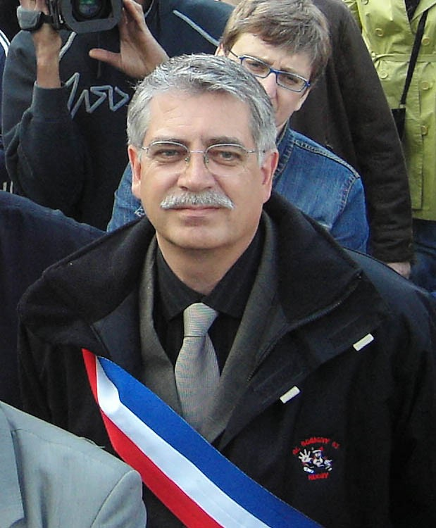 Bernard Birsinger, french communist mayor of Bobigny (Seine-Saint-Denis), at a gathering in Montfermeil, on April 29, 2006.